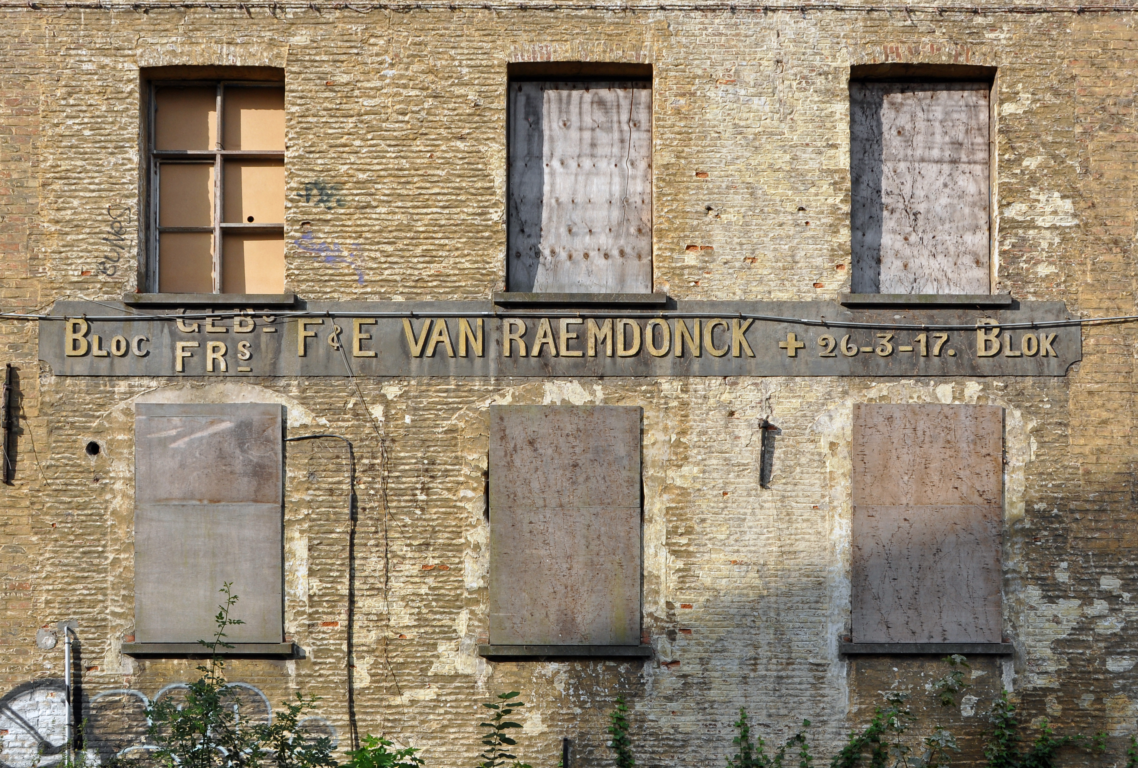 Bruges (Belgium), Hugo Losschaertstraat: former barracks "Majoor Weyler", previously convent of Carmelite nuns - detail